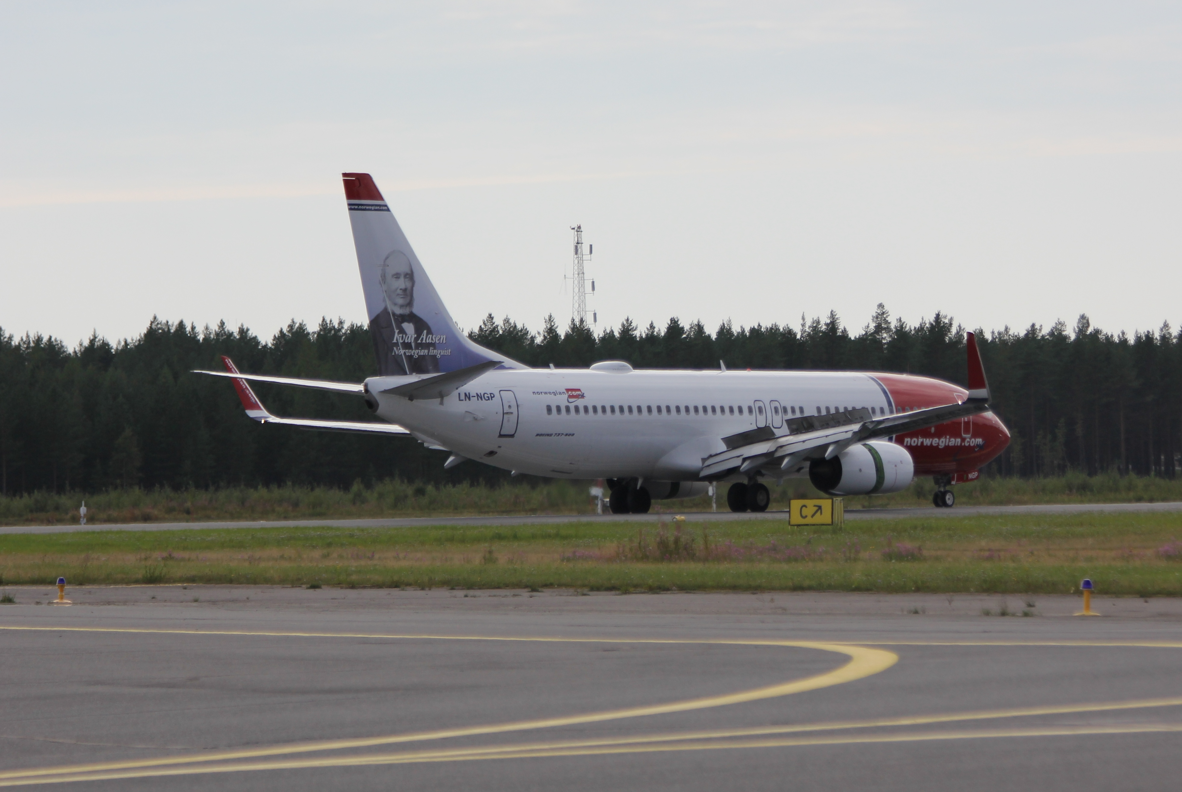 Norwegian Air Shuttle Boeing 737-8JP(WL) (LN-NGP) lands at Oulu Airport. Photographed at Tour de Sky 2014 air show though this was a regular scheduled flight.